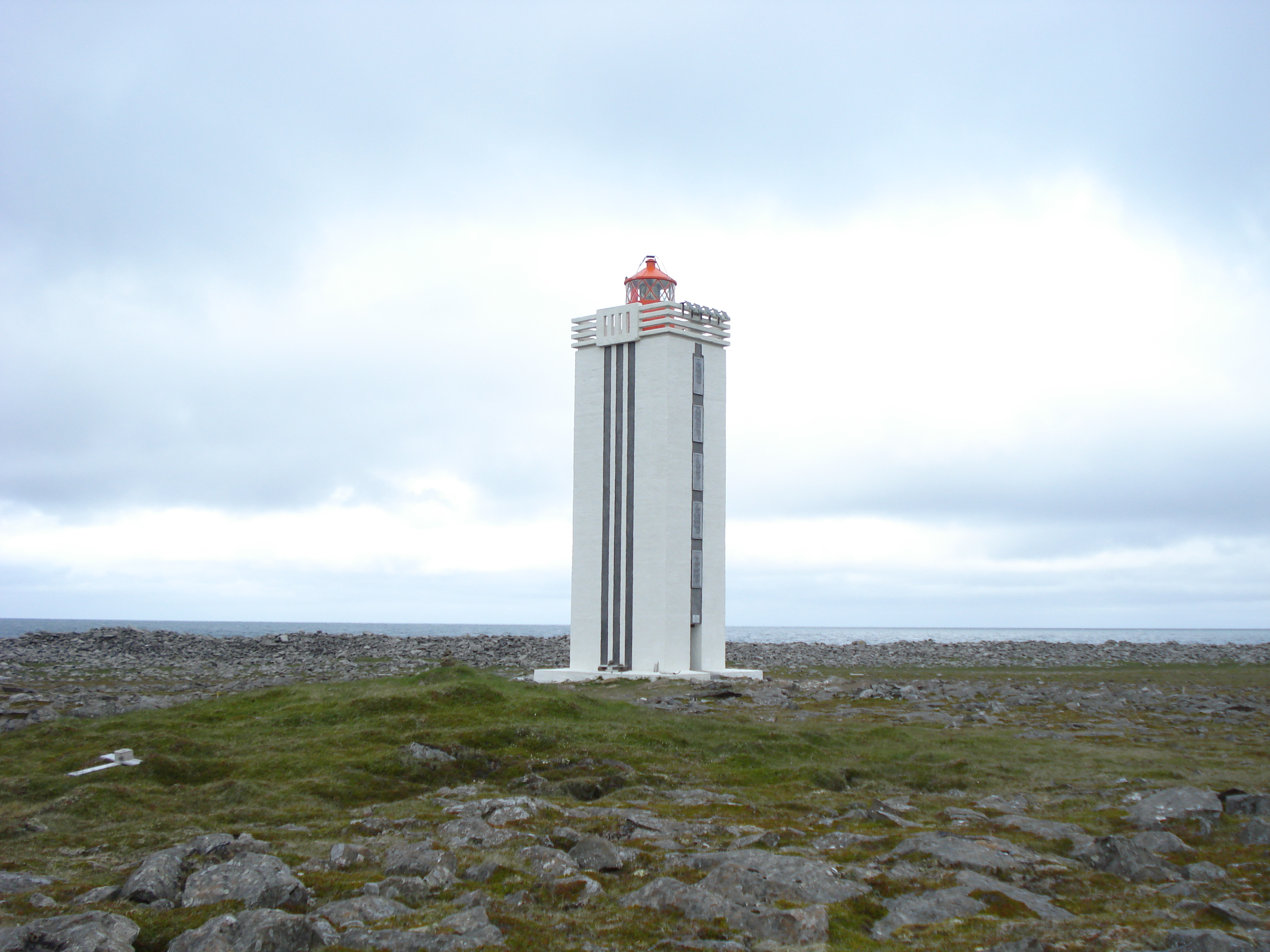 Hraunhafnartangaviti, northernmost lighthouse in mainland Iceland